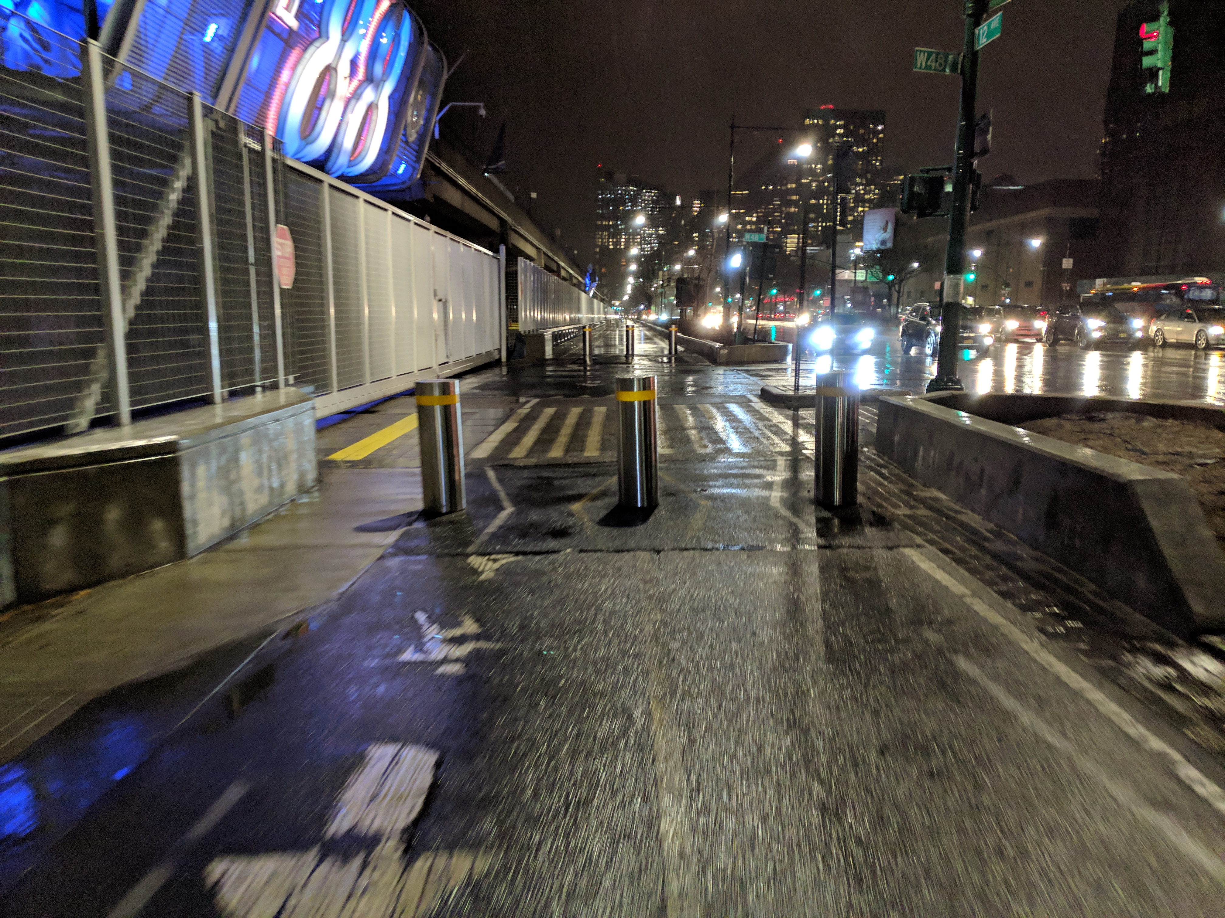 Permanent safety bollars installed on the West Side Bike Path at 54th Street.